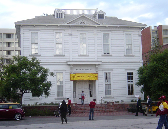 Widney Alumni House, the original structure of the University of Southern California. Build in 1880, it has been moved twice, its original location was in the middle of what is now Founder's Park. It is the oldest university structure in Southern California. This photo was taken during Homecoming, thus the extra banner over the door. Photo taken by Bobak Ha'Eri, on November 11, 2006. Please observe license and properly cite in use outside Wikipedia. Category:Images of Los Angeles, California